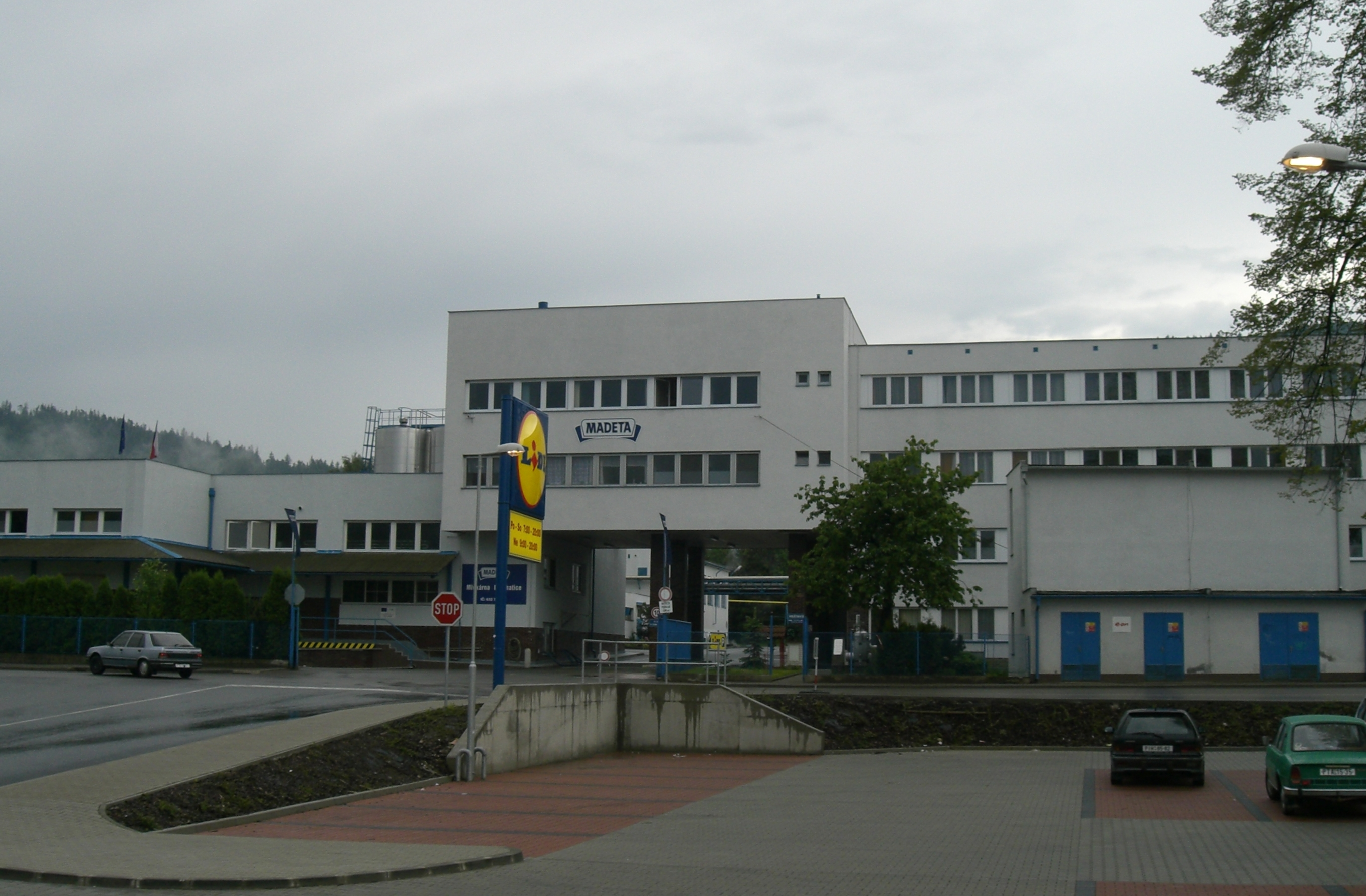 Factory of Madeta a.s. in Prachatice. Czech Republic. Demolished 2013